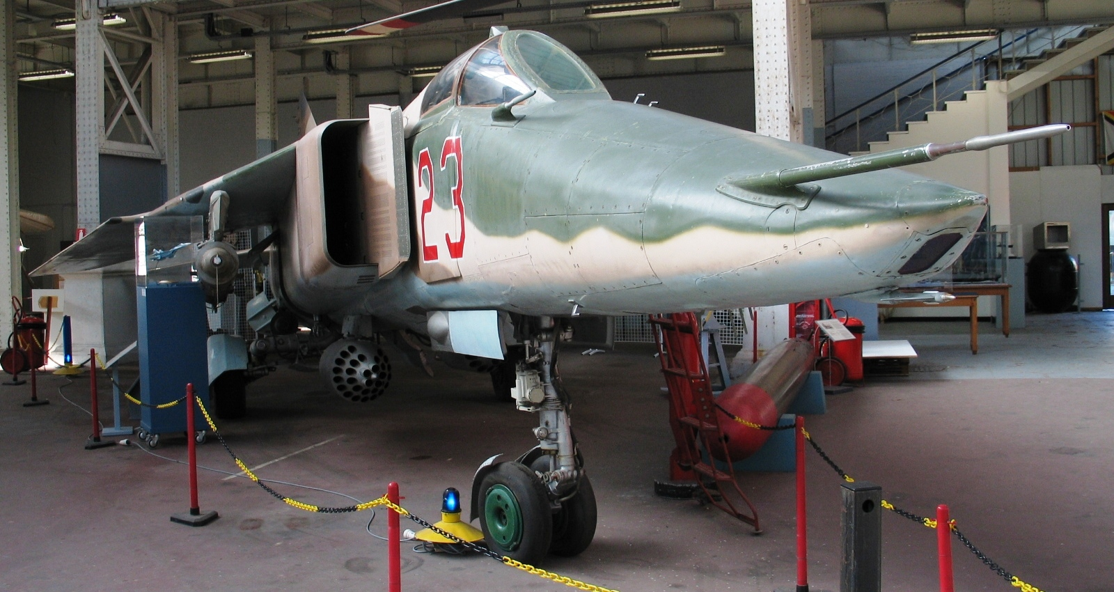 An MiG-23BN in the Royal Museum of the Army and Military History in Brussels.